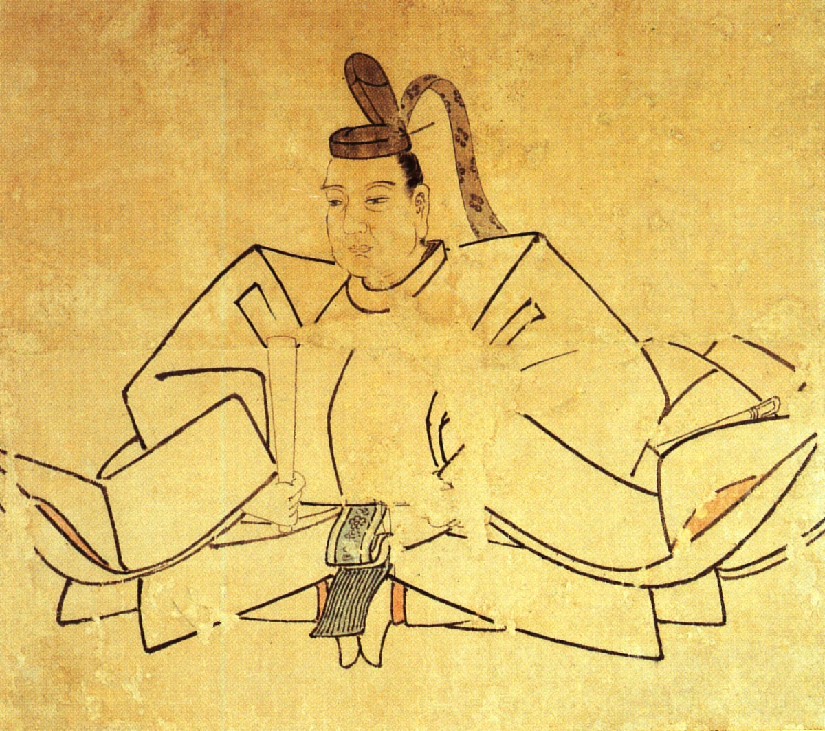 Tokugawa Iemitsu